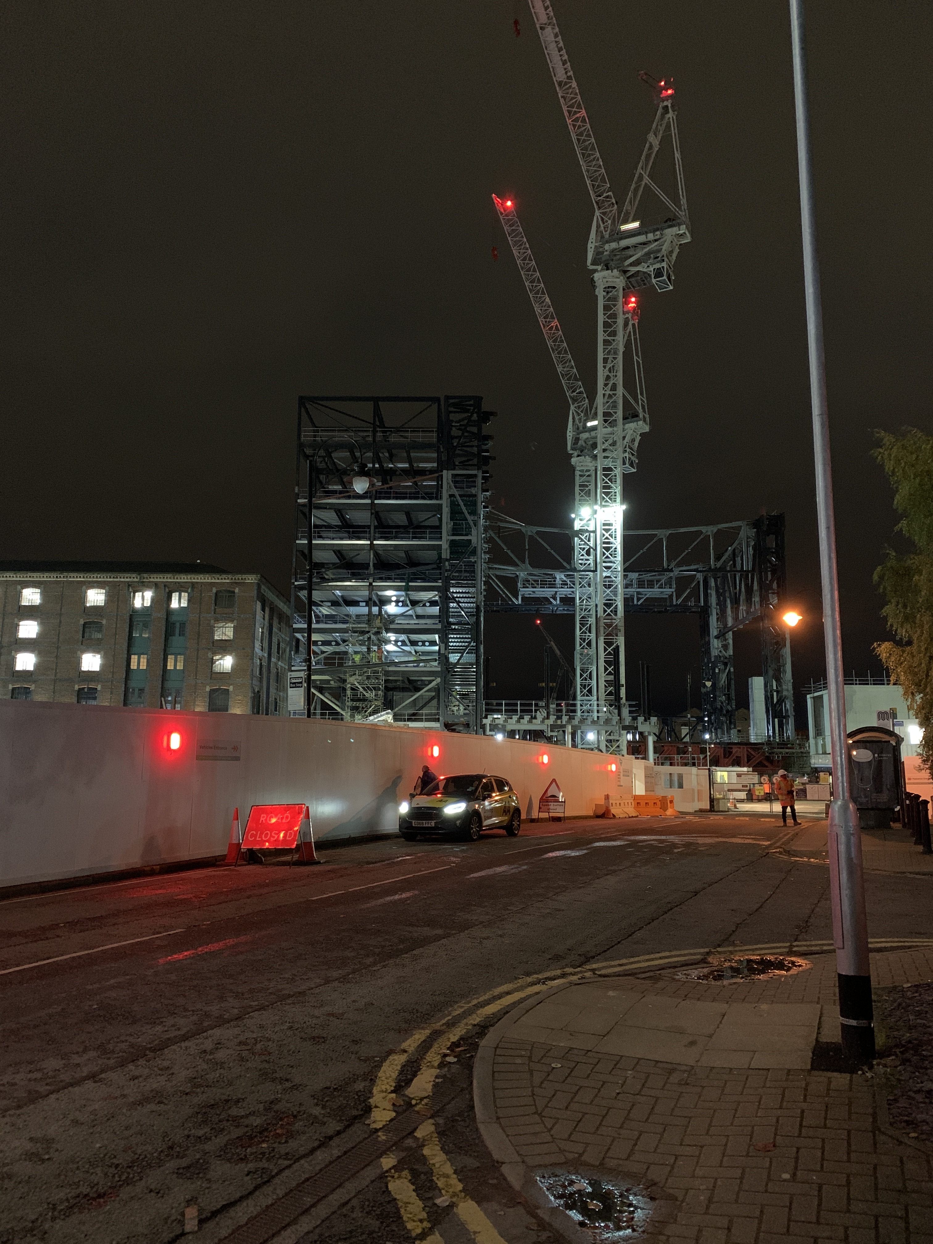 the factory manchester